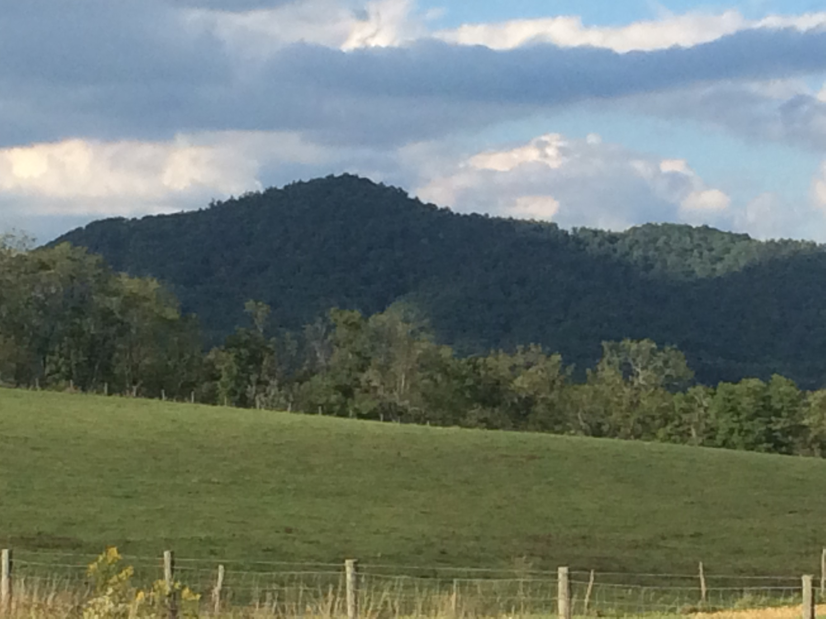 View of mountains north of Wytheville, Virginia, USA during early October